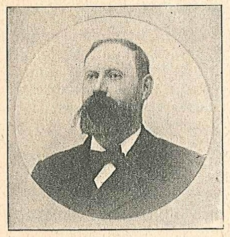 Emil Berggren (1855-1913), Swedish agricultural engineer and member of parliament.